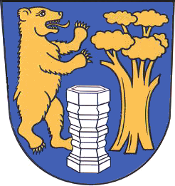 Coat of Arms of St.Bernhard